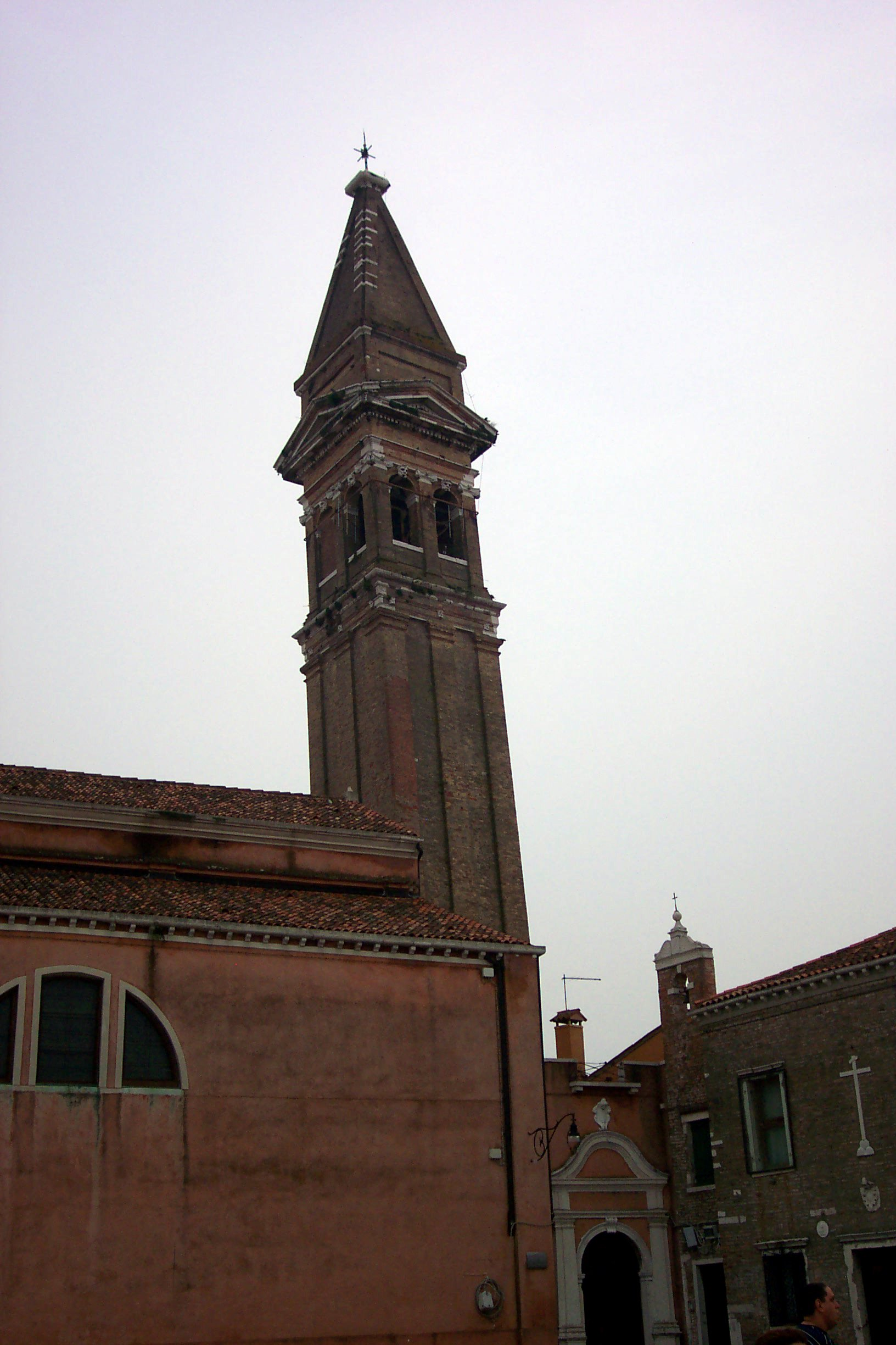 Bell tower in Burano, Venice, ItalyDCP_3111